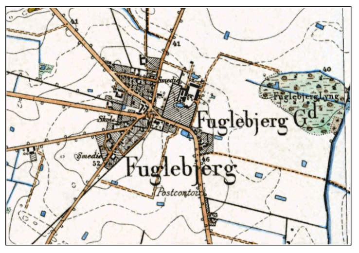 Fuglebjerg i 1800-tallet